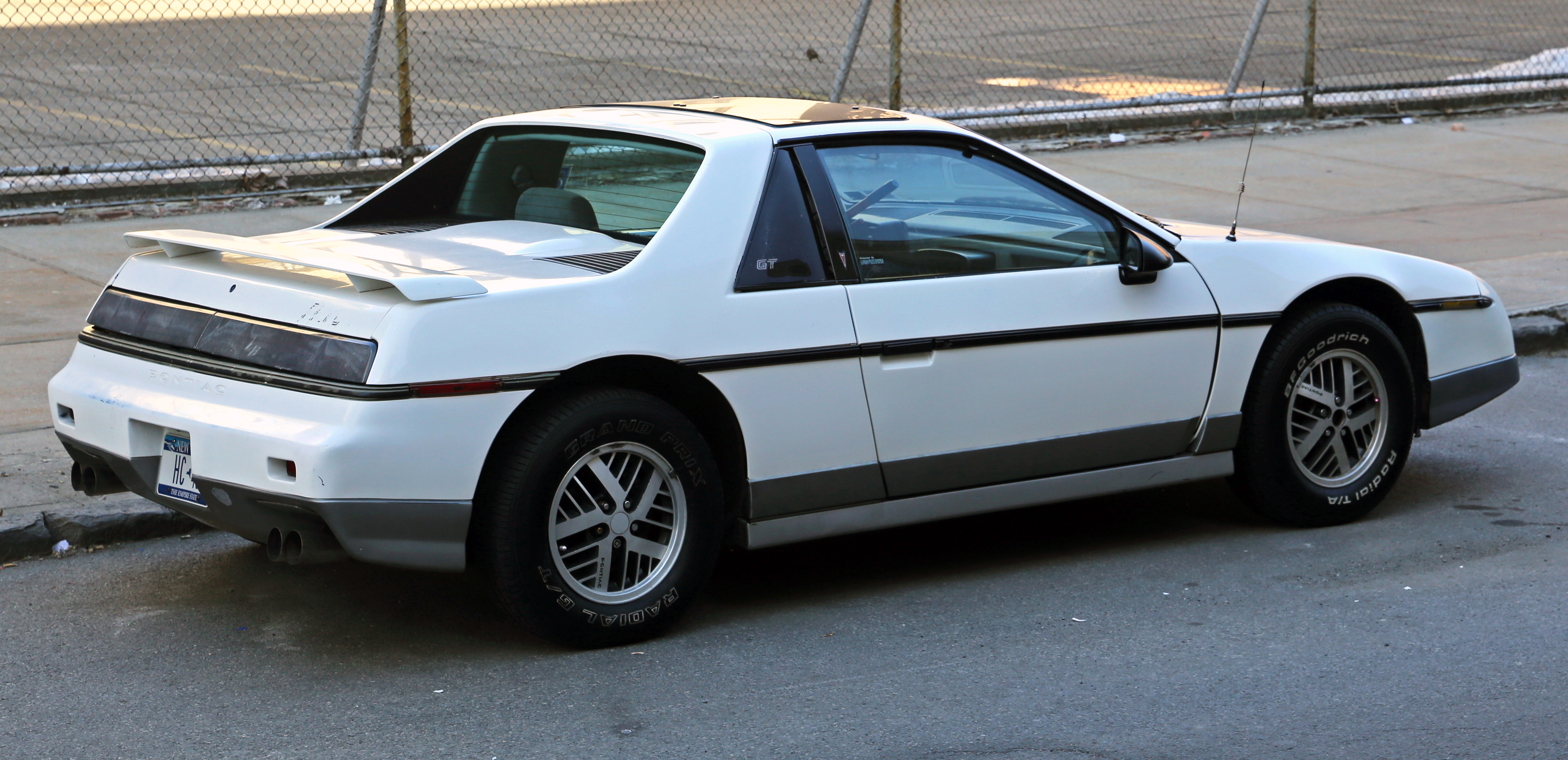 A 1985 Pontiac Fiero GT, the first year for the GT as well as the 2.8 litre V6 engine with which this is fitted.